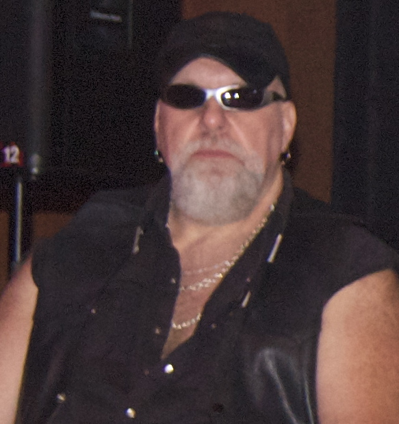 Leatherface actors from The Texas Chain Saw Massacre (1974), The Texas Chainsaw Massacre 2 (1986) and Leatherface: The Texas Chainsaw Massacre III (1990) at Days of the Dead Indianapolis 2012.